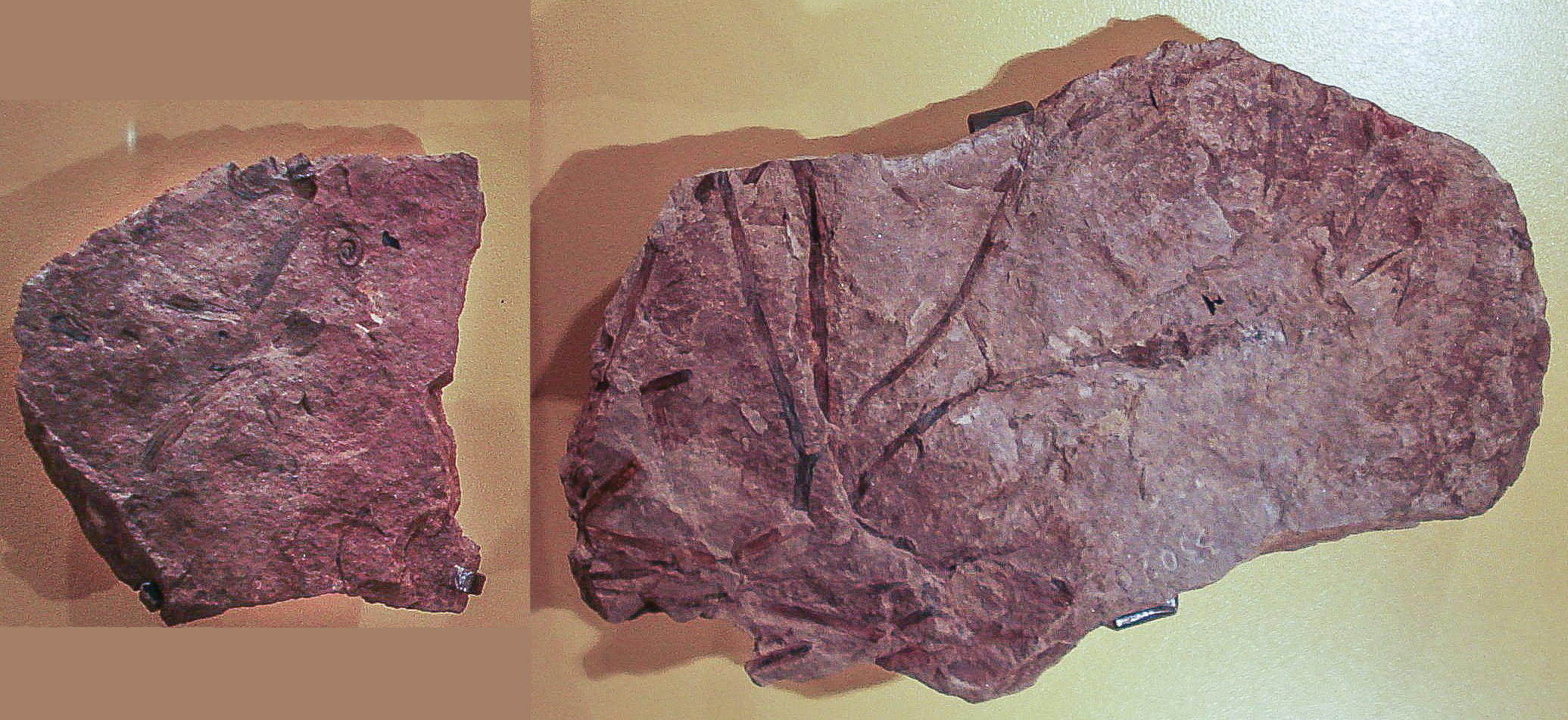 English translation of the original German label: Zosterophyllum Early Devonian (Siegburg near Berlin, North Rhine-Westphalia) left: curled (circinate) branch ends, right: with sporangium